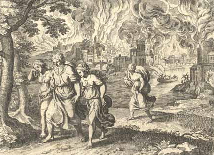 Escape of Lot from Sodom (detail), by Matthäus Merian (1593-1650)